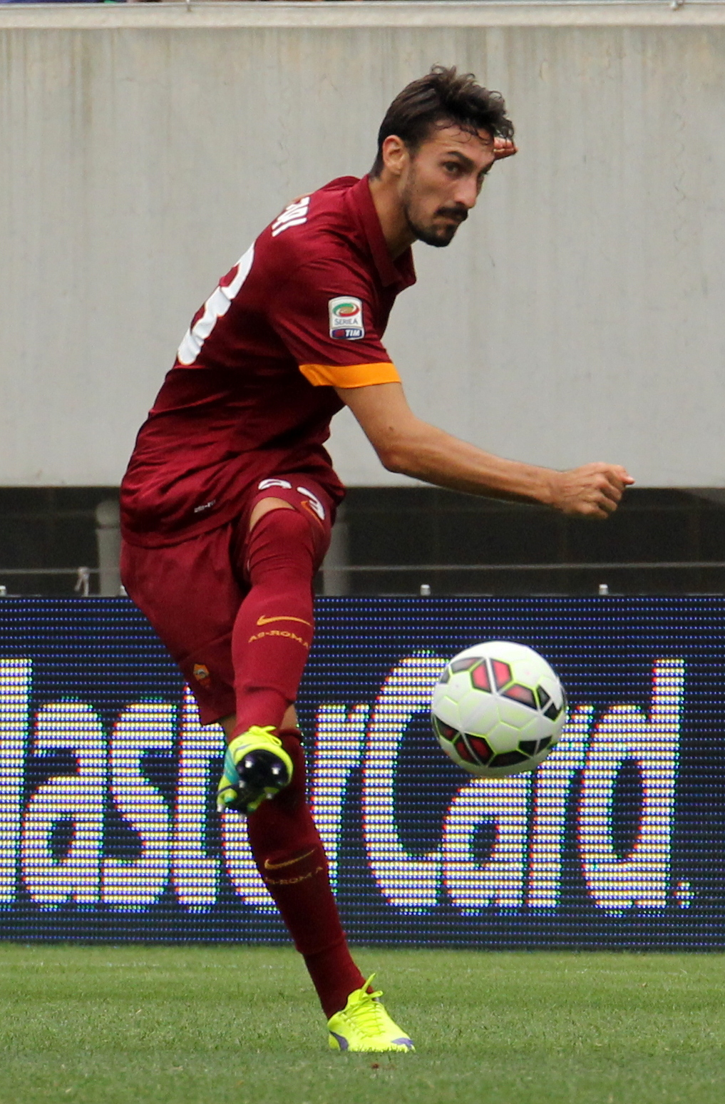 Davide Astori playing for AS Roma in pre-season friendly against Inter Milan in International Champions Cup in 2014.